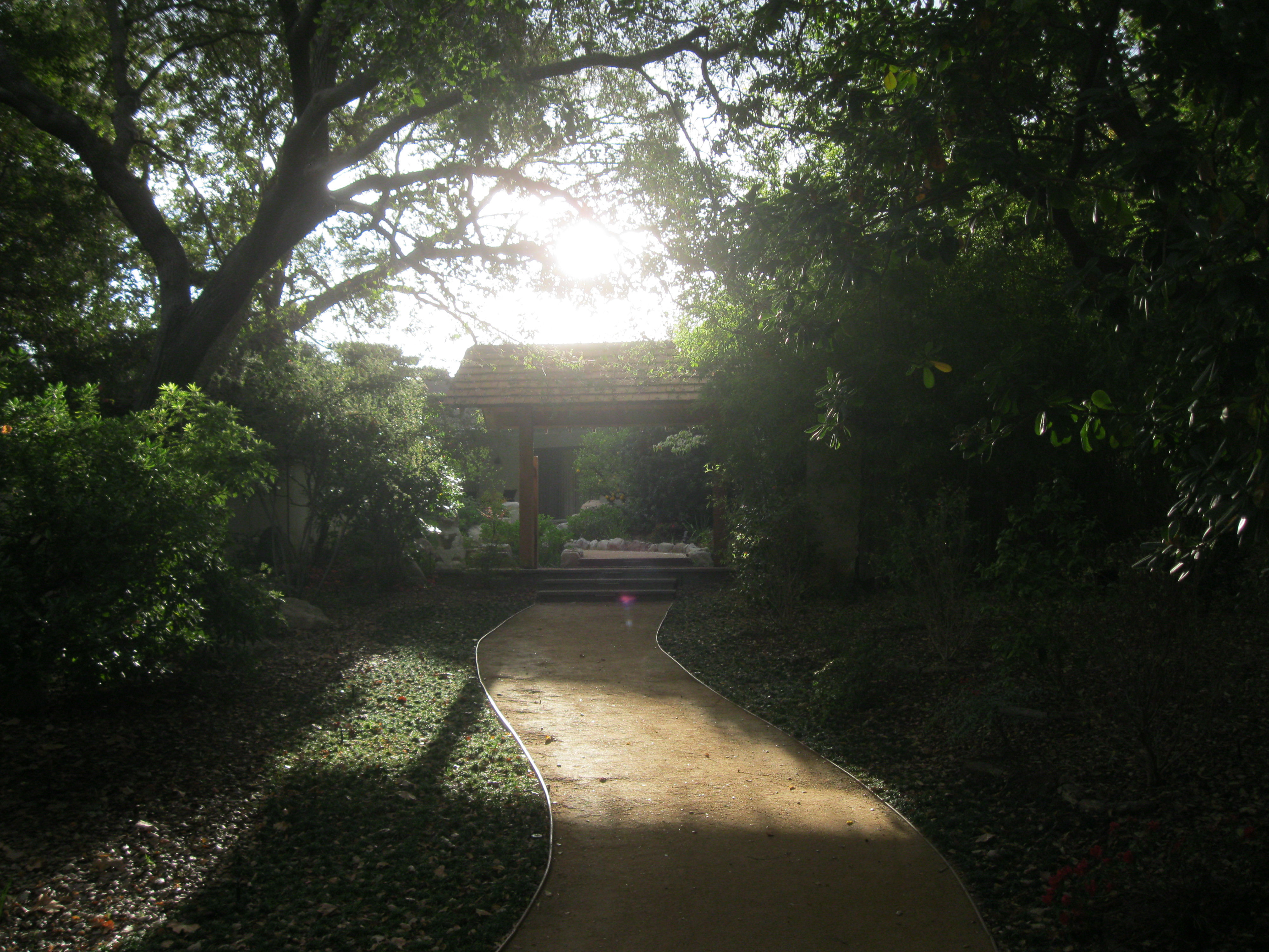 The entrance to the Storrier-Stearns Japanese Garden in Pasadena, California, which is listed on the National Register of Historic Places.